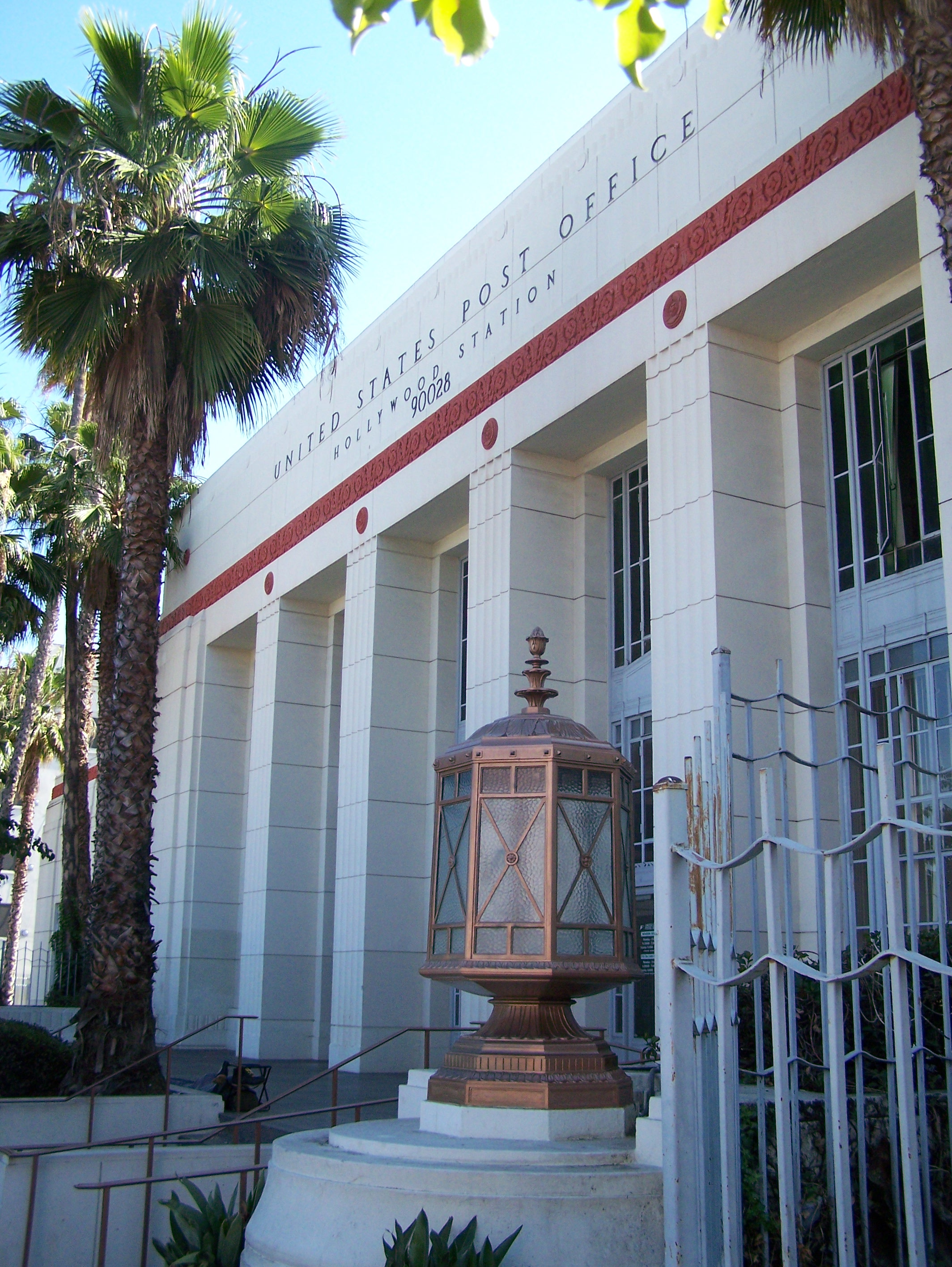 United States Post Office - Hollywood Station, 1615 N. Wilcox Ave., Hollywood, California. 1930s Art Deco building by the Works Progress Administration, on the National Register of Historic Places.